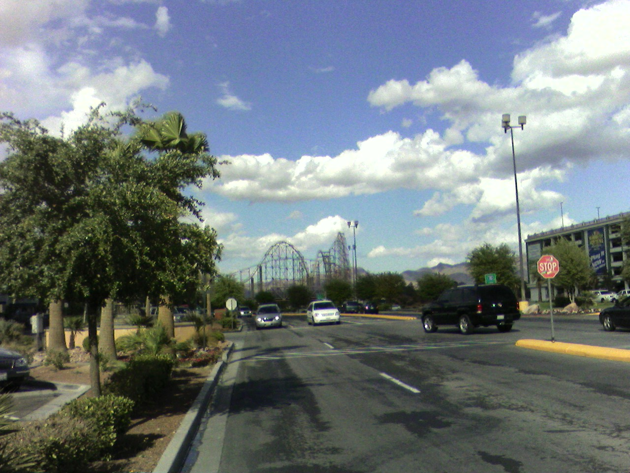 Primm, Nevada near I-15.